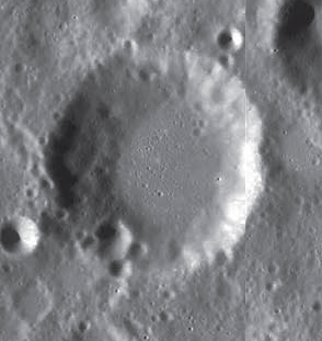 Dufay crater - image form the chart LAC-67